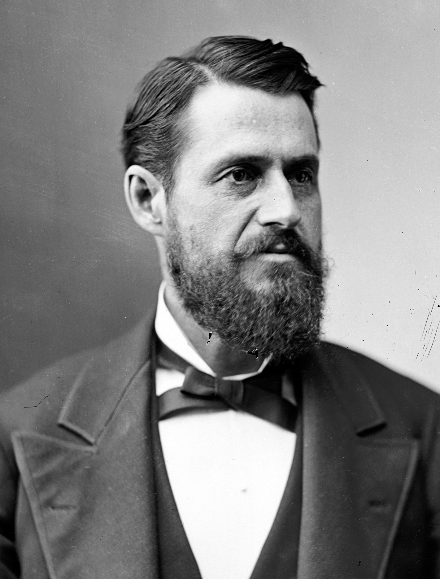 Horatio Bisbee, US Representative from Florida